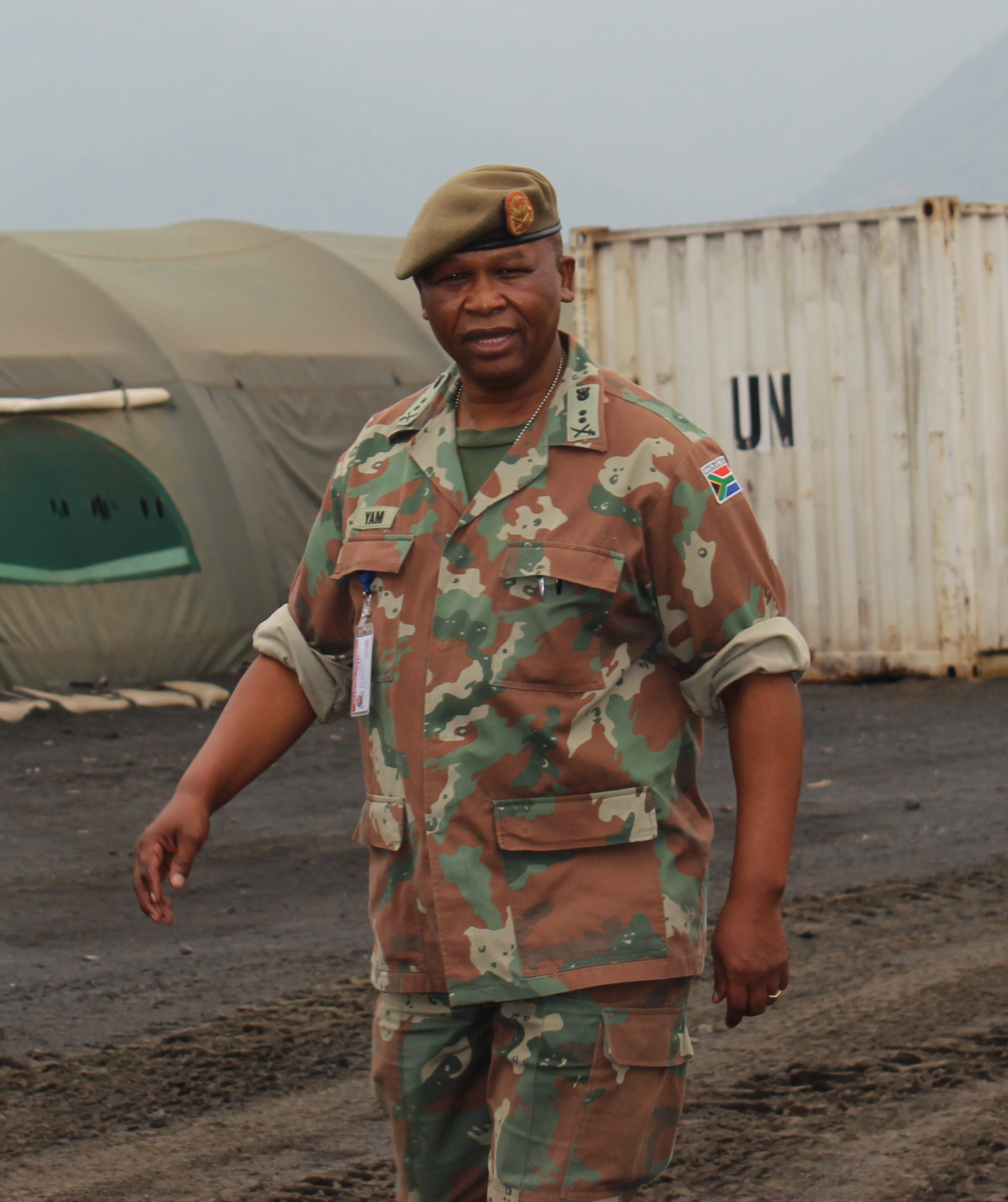 Major General Lindile Yam during a visit to the FIB in the DRC during 2014